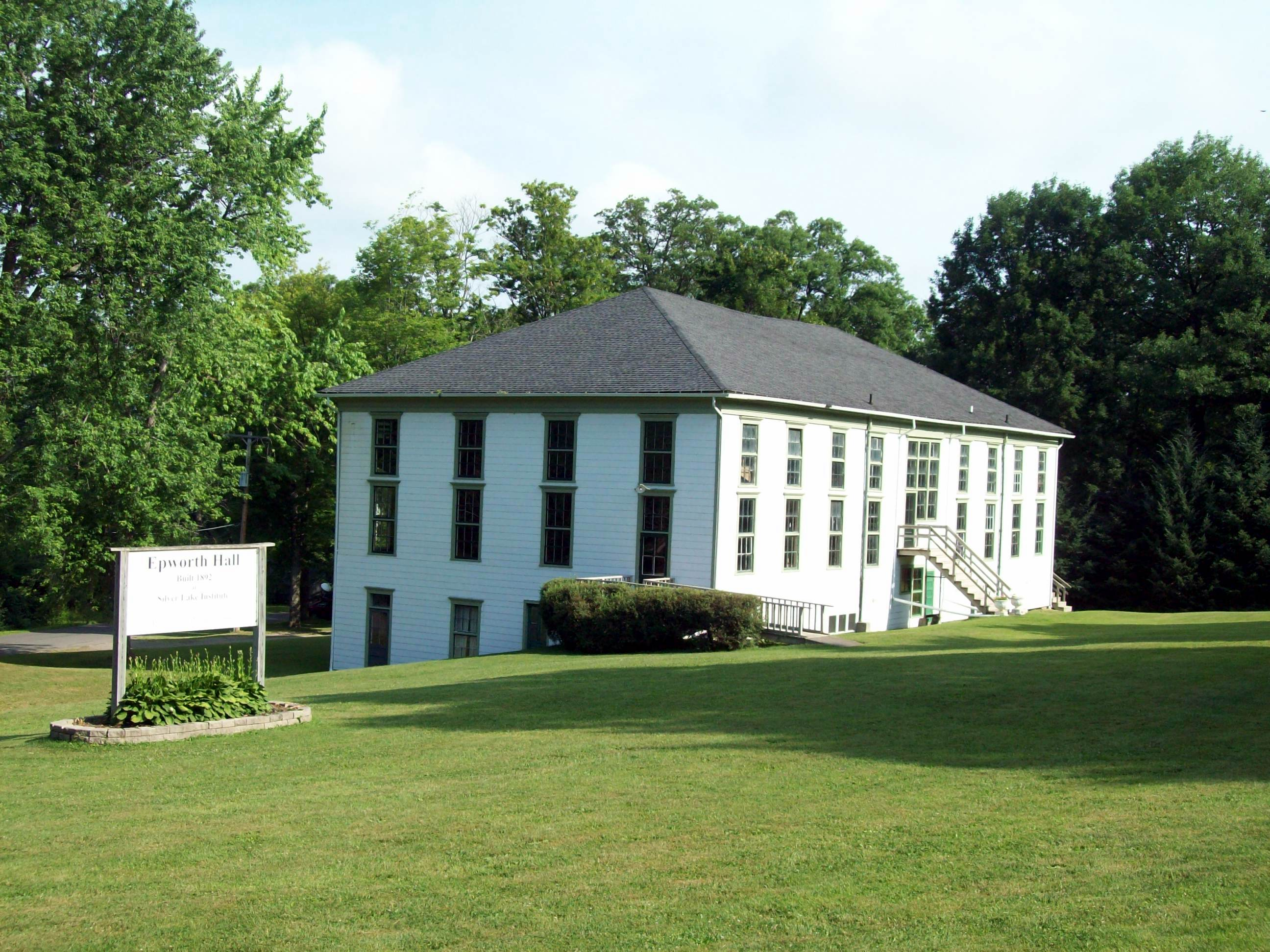 Epworth Hall, Perry, NY, July 2011N